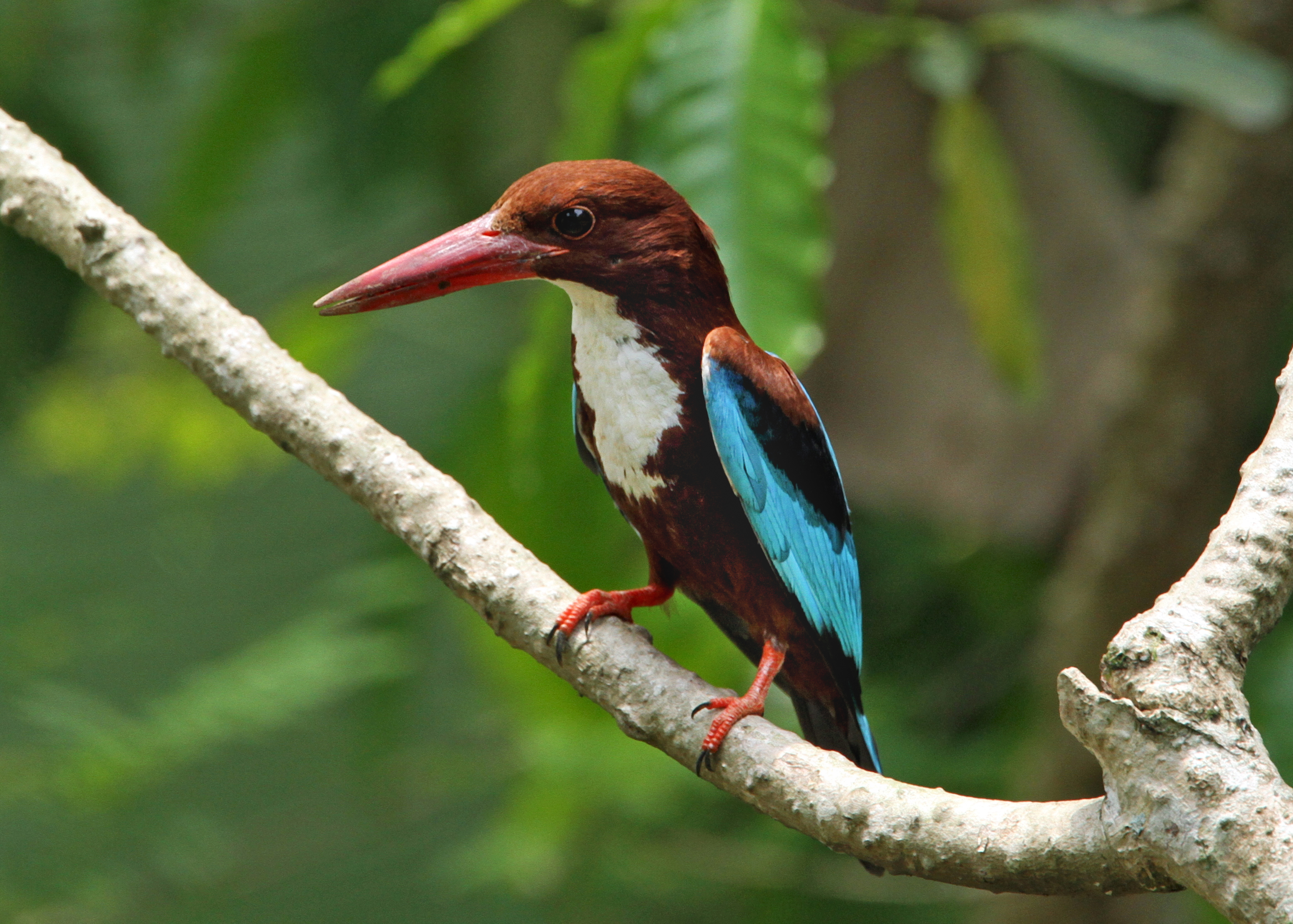 A White-throated Kingfisher in Kerala, India.